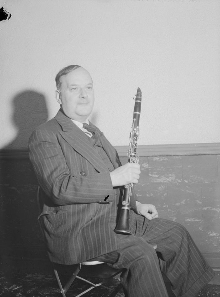 Armand Gagnier holds his clarinet.